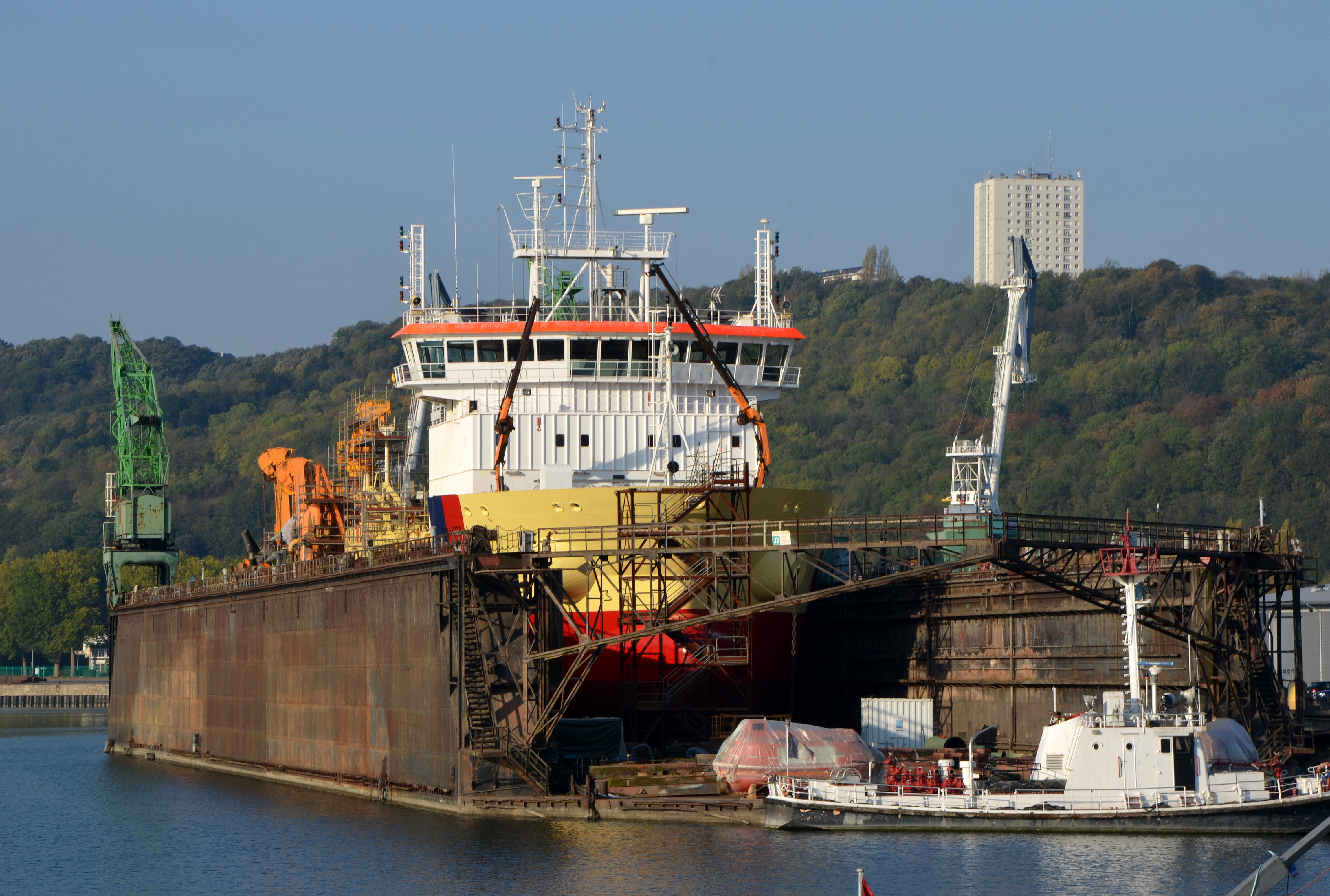 Floating drydock in the harbour of Rouen, Seine Maritime, France